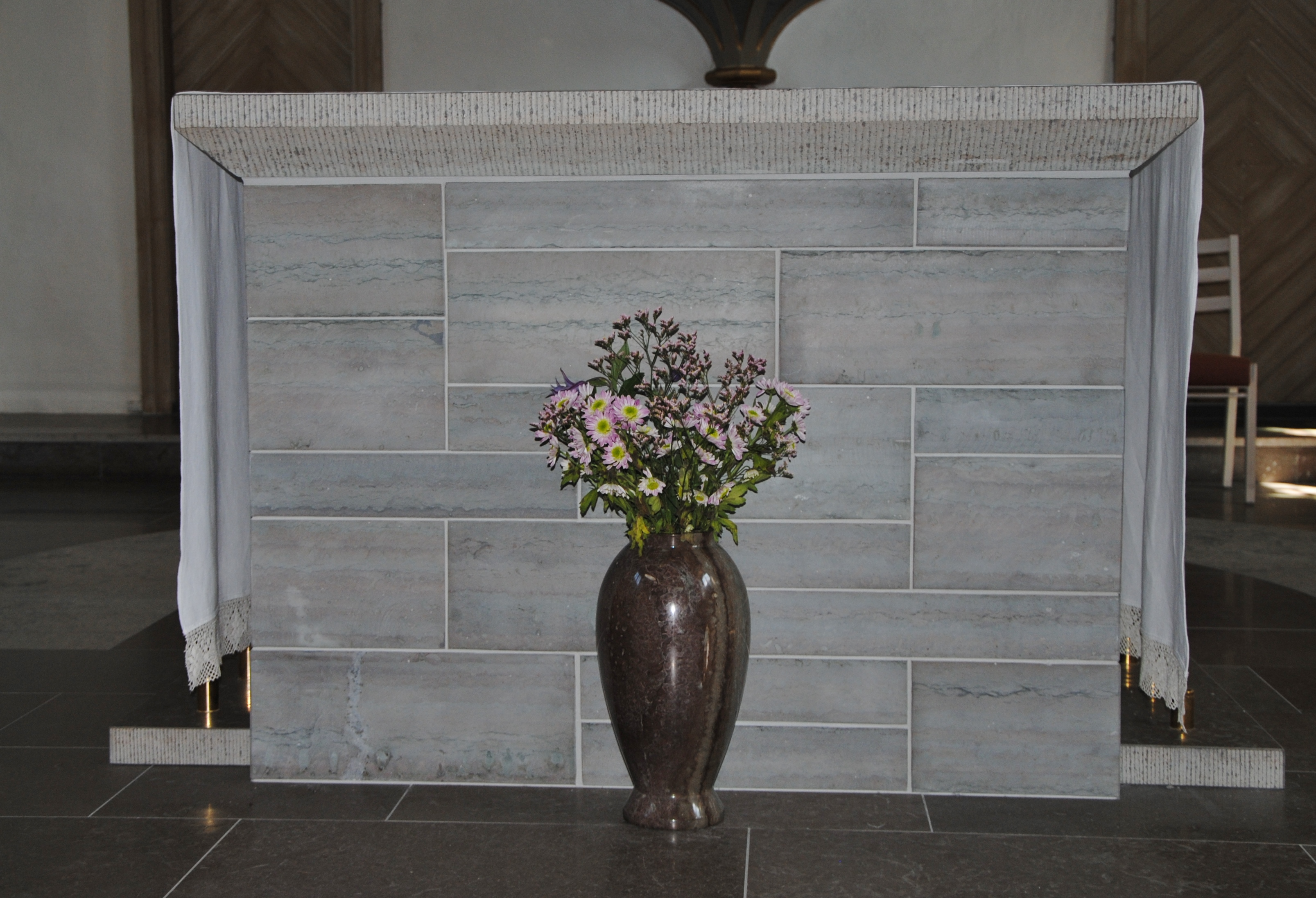 Ventlinge Church. The new altar.